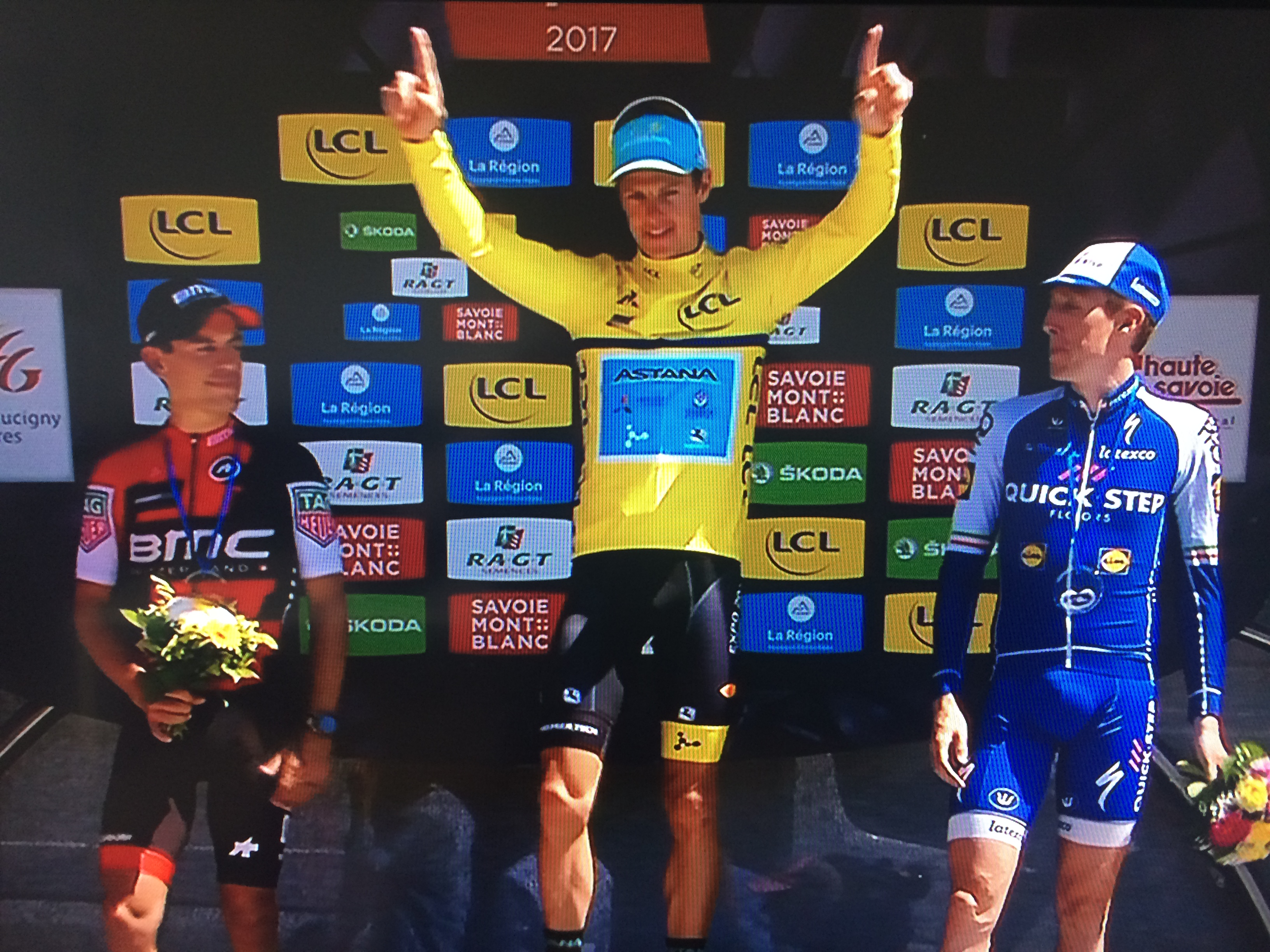 Richie Porte, Jakob Fuglsang, Dan Martin on the podium of the 2017 Criterium du Dauphine